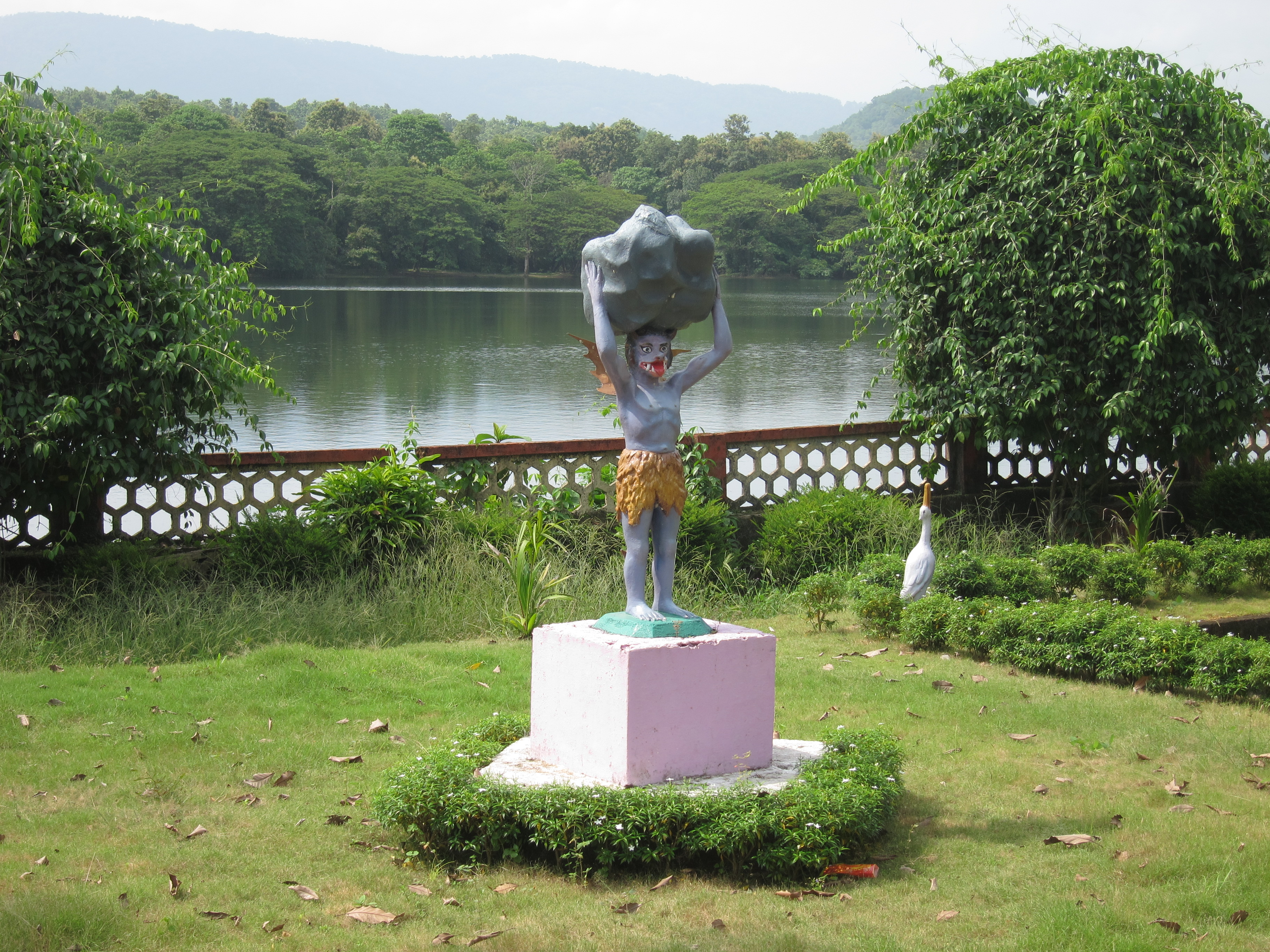 Bhoothathankettu Dam, Ernakulam District, Kothamangalam - Thattekadu Road, 3 k.m away from Keerampara Junction on the way to Idamalayar.